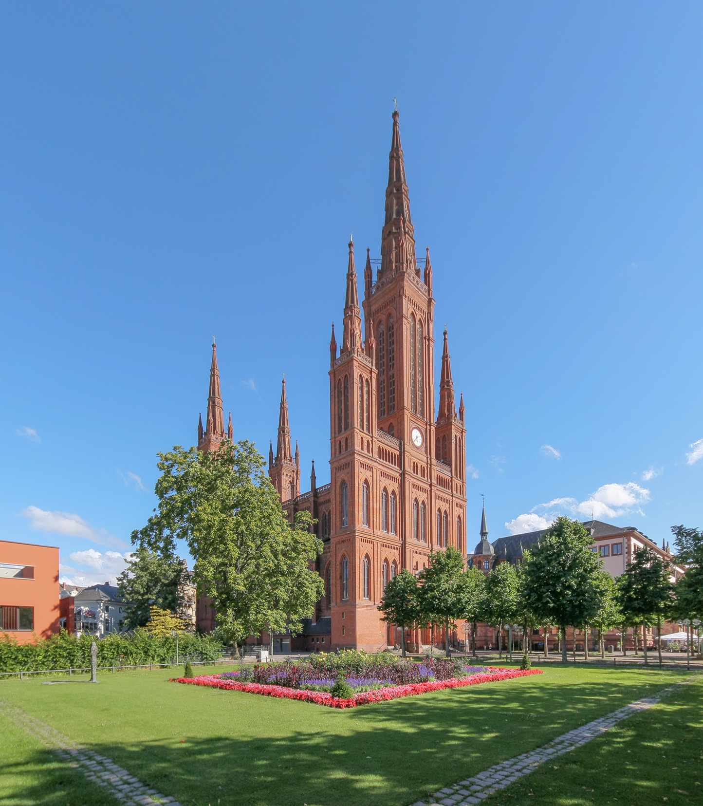 The Marktkirche in Wiesbaden, Germany as seen from northThis is a photograph of an architectural monument.